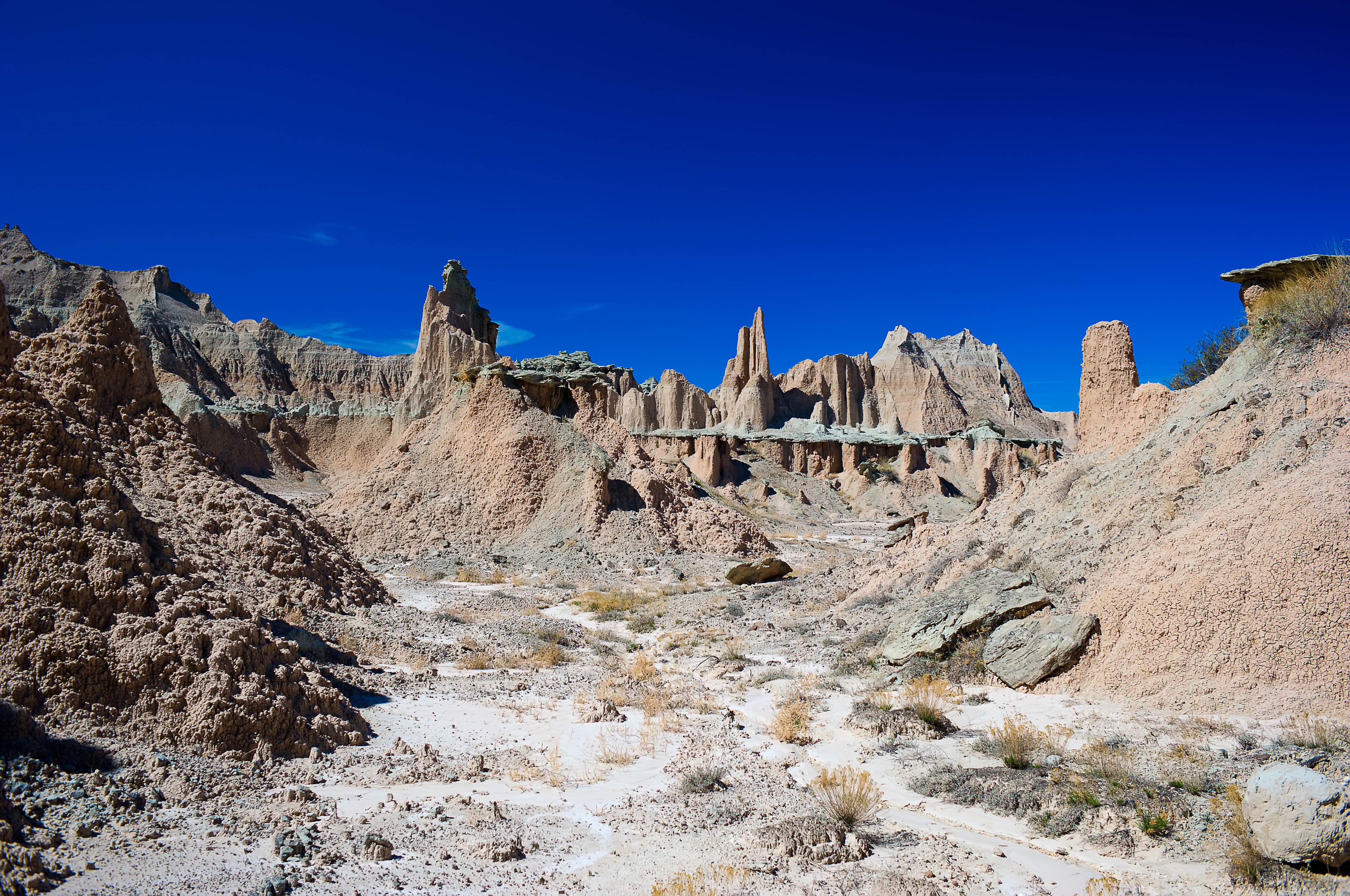 NPS Photo by Steven Donley